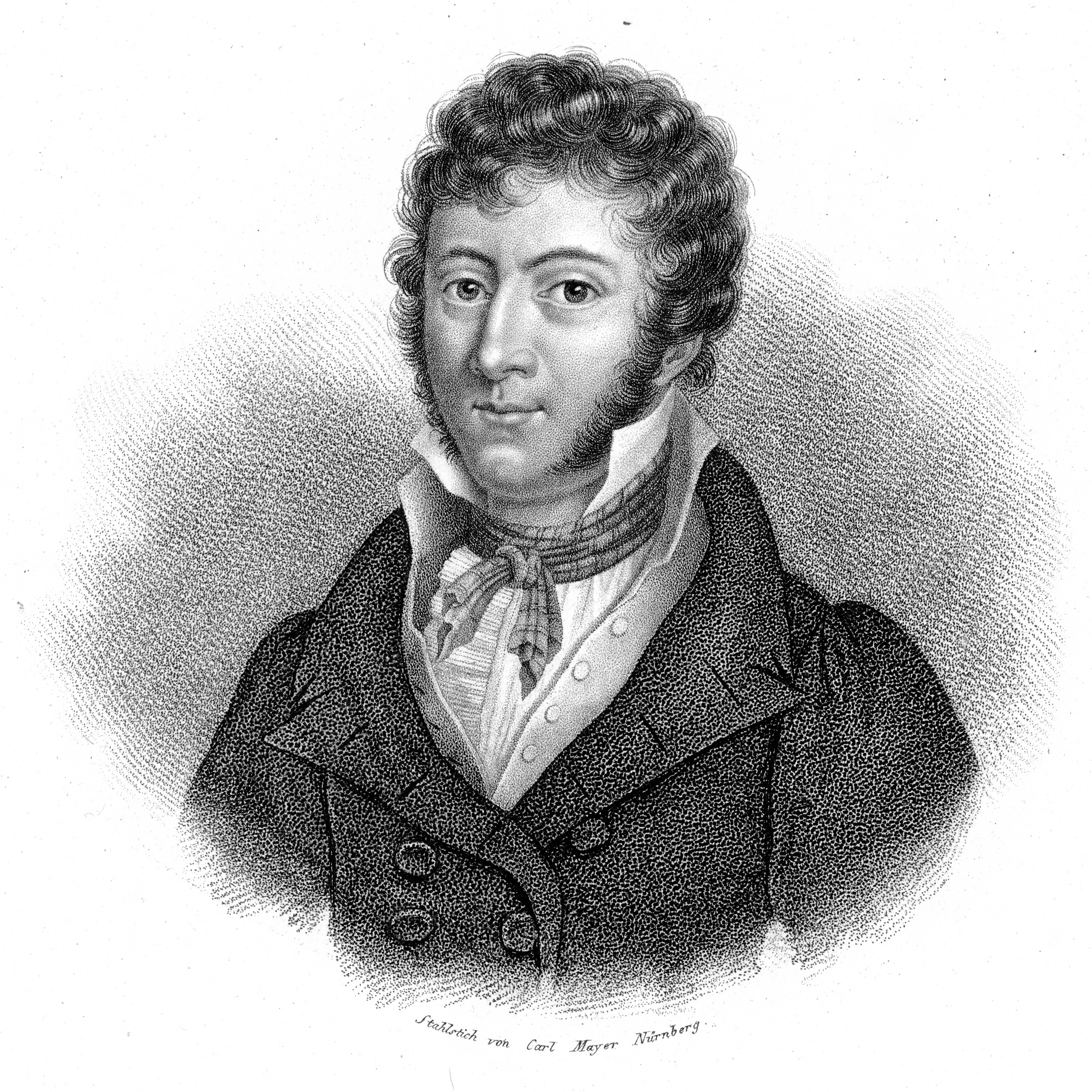 Depicted person: John Field (composer)